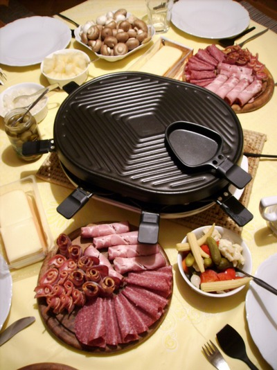 raclette with all the trimmings